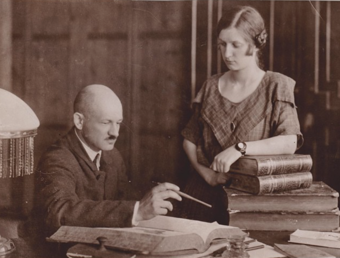 Stanisław Bobiński with his wife Jadwiga Siekierska, Moscow